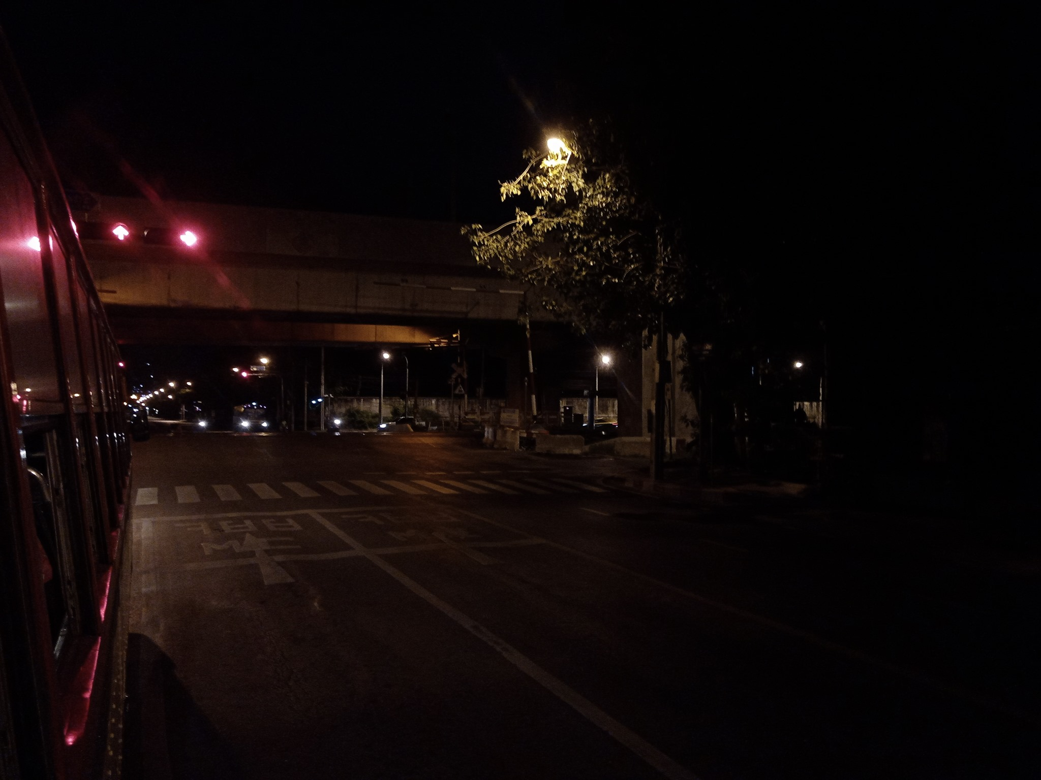 Thoet Damri Intersection, BKK.